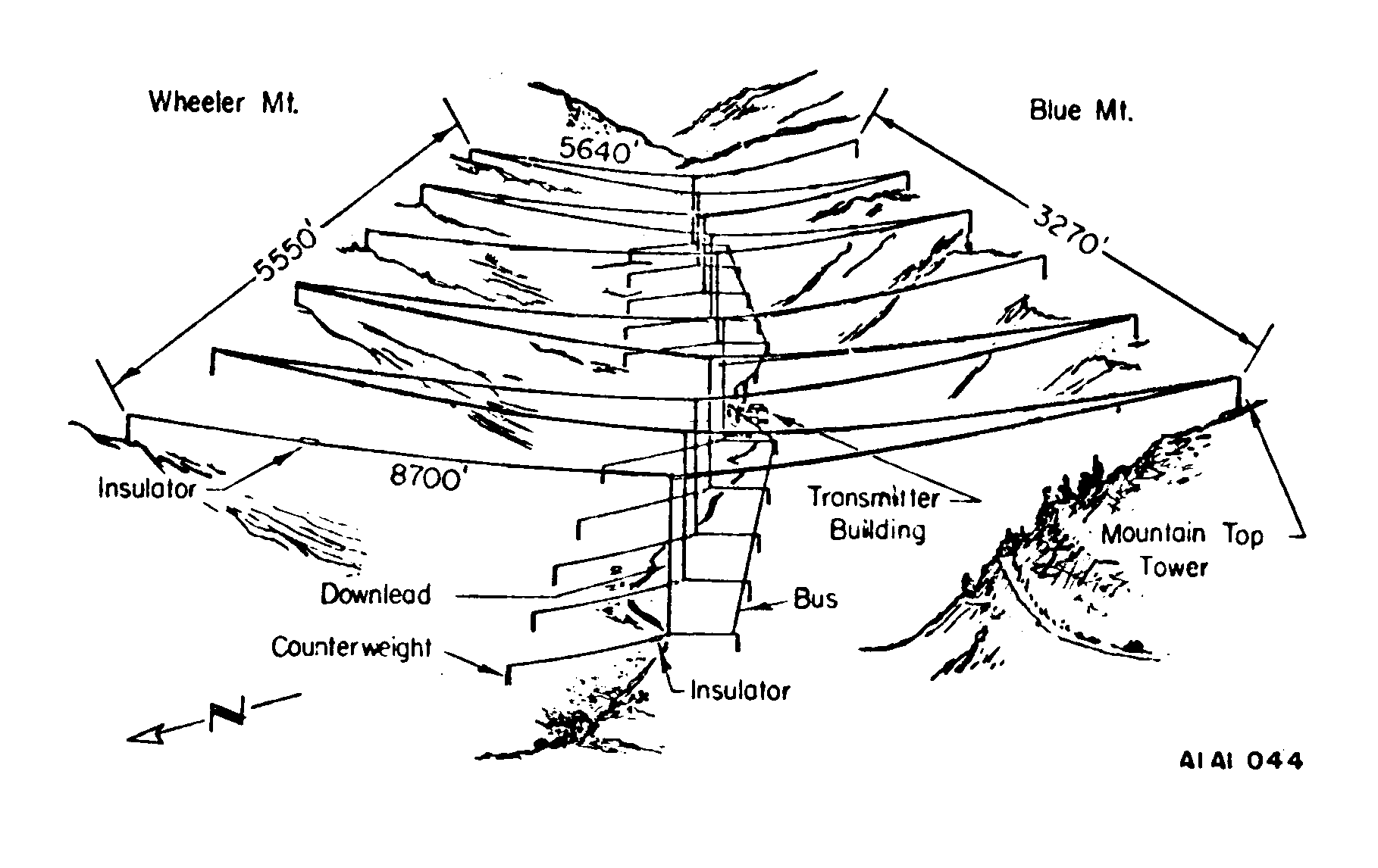 Antenna of US Navy Jim Creek VLF Radio Station near Oso, Washington State, USA. It transmits at VLF frequencies, usually around 24 kHz, with an output power of 1.2 megawatts, one of the most powerful radio stations in the world. The main purpose of this station is to communicate one way with submerged submarines of the Pacific Fleet. The antenna, called a "valley span" antenna, consists of 10 "catenary" cables suspended by 200 ft towers over the valley between Wheeler Mountain and Blue Mountain in a zigzag pattern. Each cable is driven at the center by a short vertical cable which drops down to a transmission line bus which is comes from the transmitter building in the center. It functions as a capacitively top-loaded monopole antenna; the vertical cables are the main radiating elements, and the horizontal cables add capacitance to the top of the antenna to improve efficiency. The antenna is divided into two sections, which normally operate as one, but each can operate as a separate antenna so that maintenance can be performed on one half without interrupting transmission. The valley under the antenna has an extensive counterpoise ground system consisting of a network of cables suspended close to the ground.